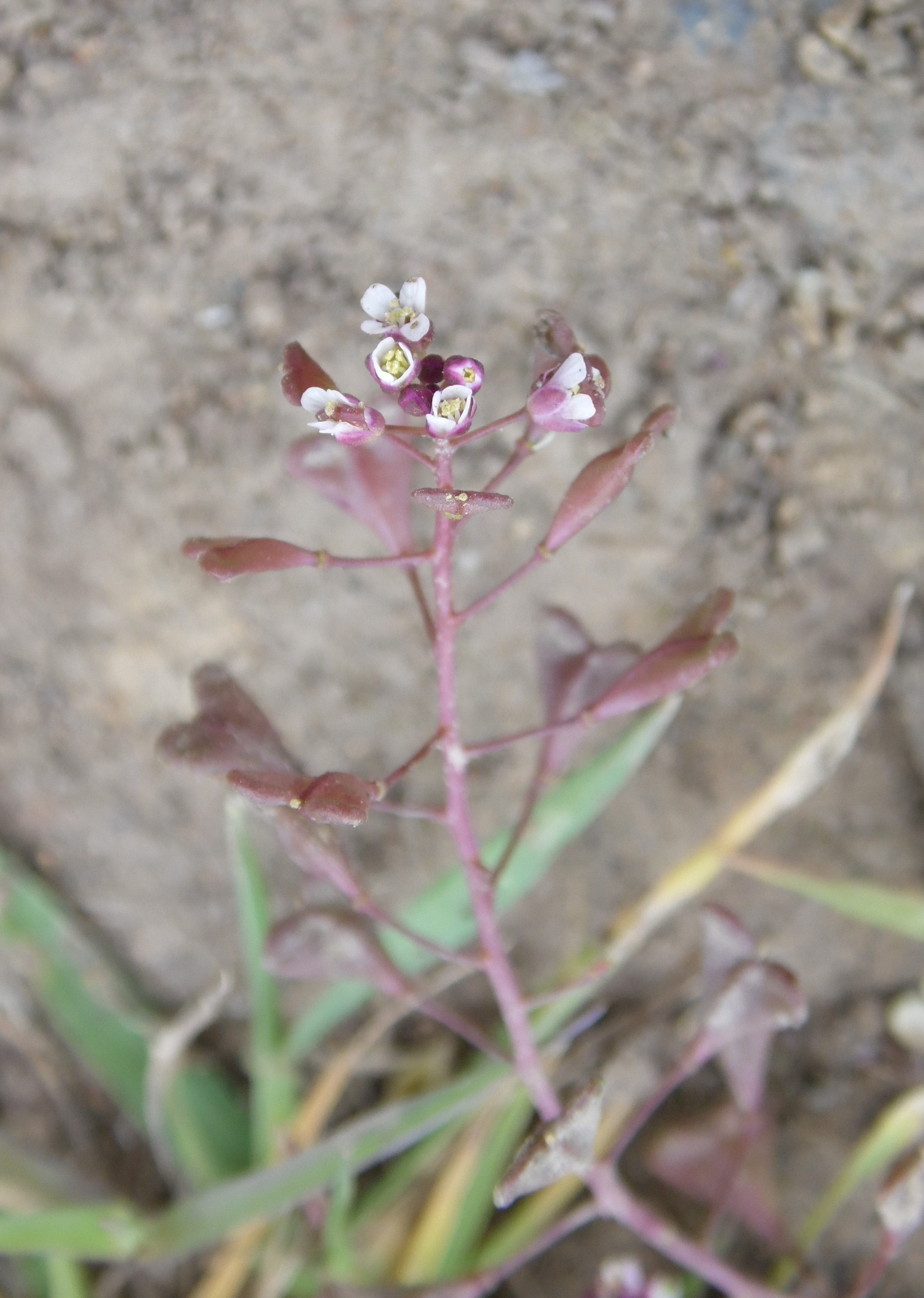 Capsella rubella on path N from Cruz de Tajeda, Gran Canaria, Canarias Islands